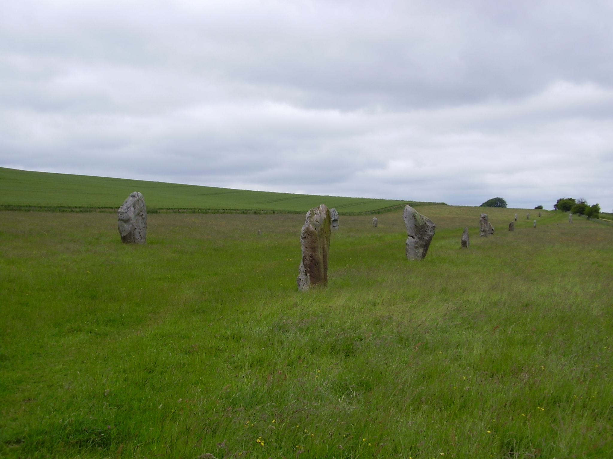 Avebury AvenueAvebury Avenue